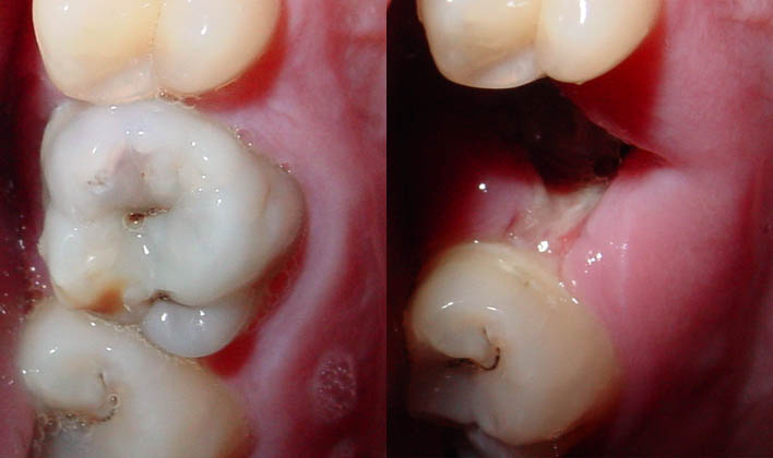 (Tooth with extensive evidence of dental carries. (left), leading to eventual extraction.(Right)